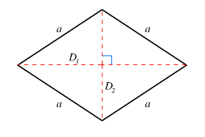 A rhombus with side length a {\displaystyle a} and diagonals D 1 {\displaystyle D_{1 and D 2 {\displaystyle D_{2 .